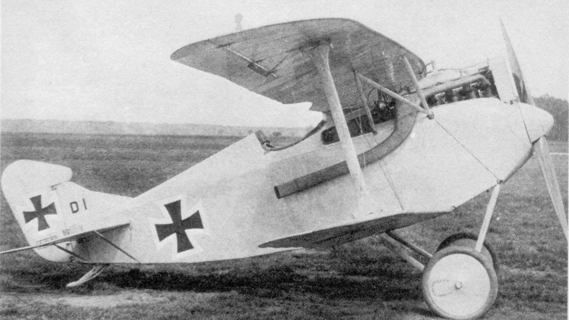 Prototype of the AEG D.I single seat fighter biplane of 1917, flown by German ace Walter Höhndorf, and in which he lost his life on September 5, 1917 when the aircraft crashed.